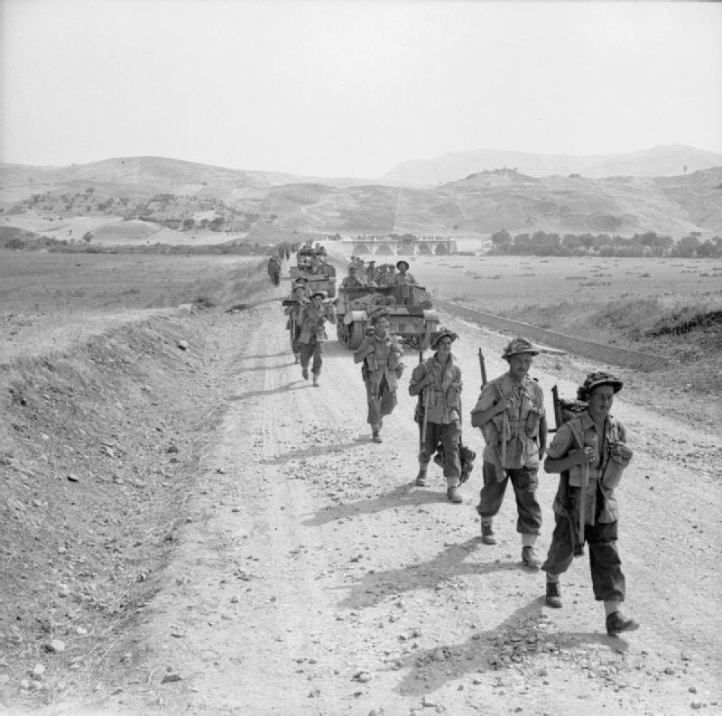 The British Army in Sicily 1943 Carriers and troops of the 6th Inniskillings, 78th Division move up to Catenanuova, August 1943.